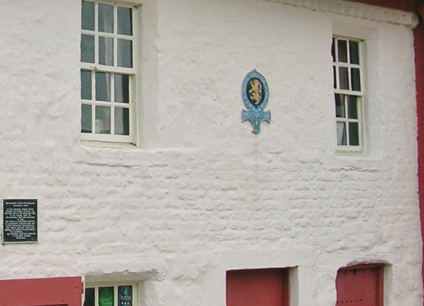 Detail of Fire Mark, Bachelors' Club, Tarbolton, South Ayrshire, Scotland.